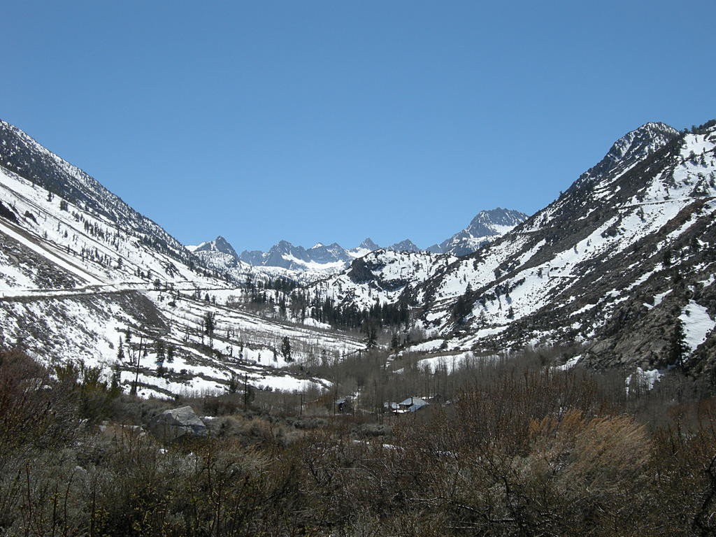 California State Highway 168, heading up Bishop Creek in the Sierra Nevada